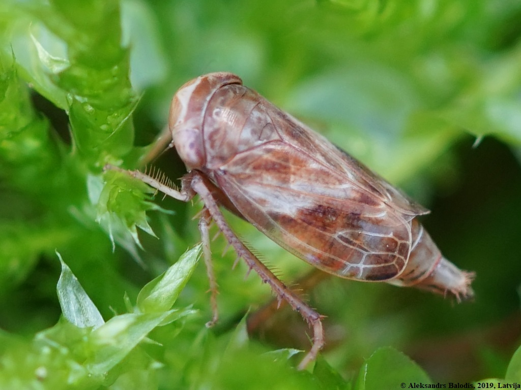 Athysanus quadrum